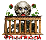 The logo of the Uncyclopedia in grego.